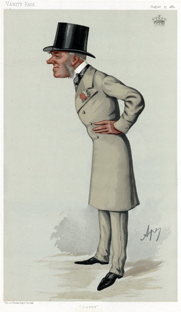 Caricature of George Coventry, 9th Earl of Coventry. Caption read "Covey".